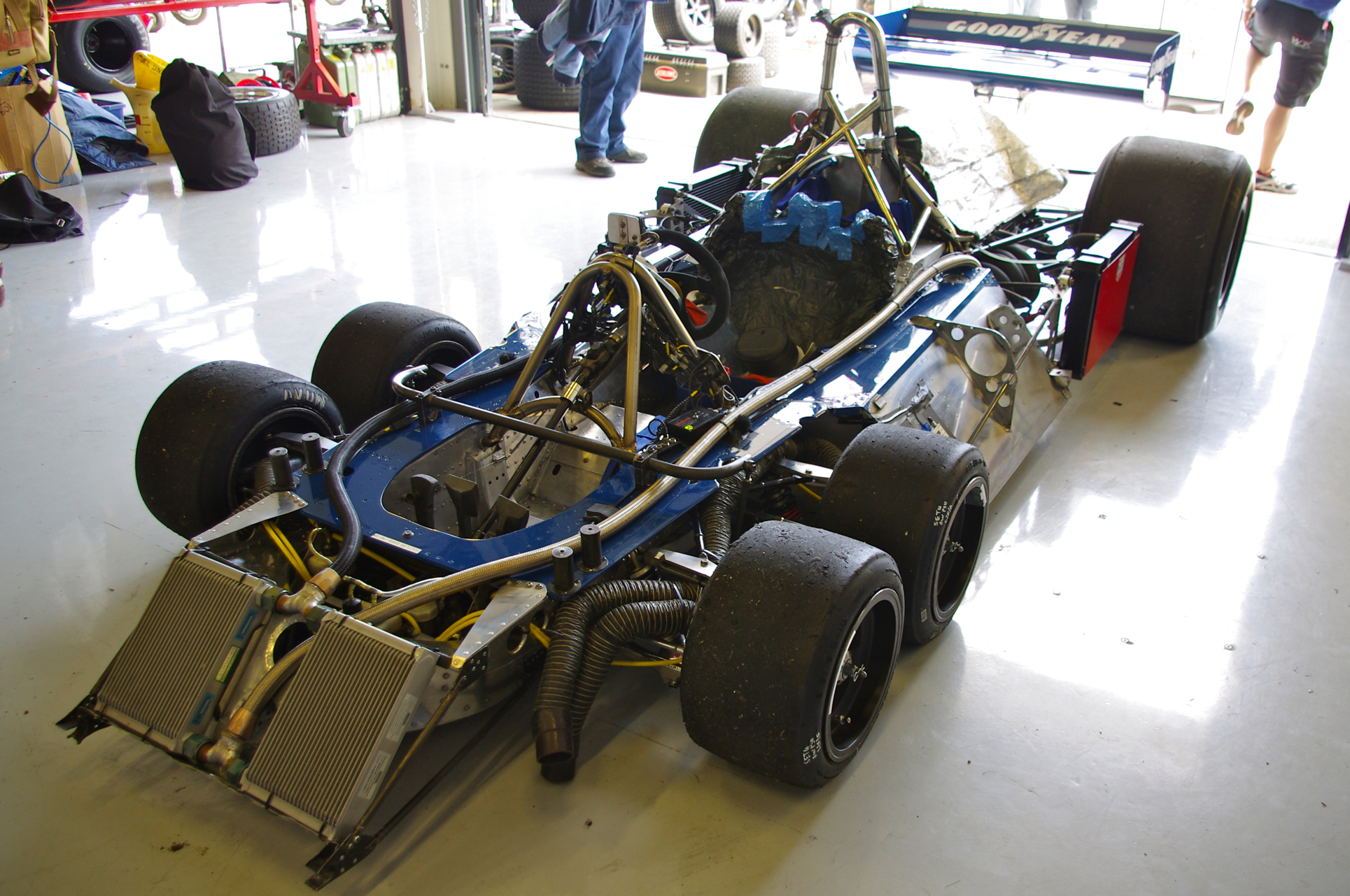 Silverstone Classic, 2012